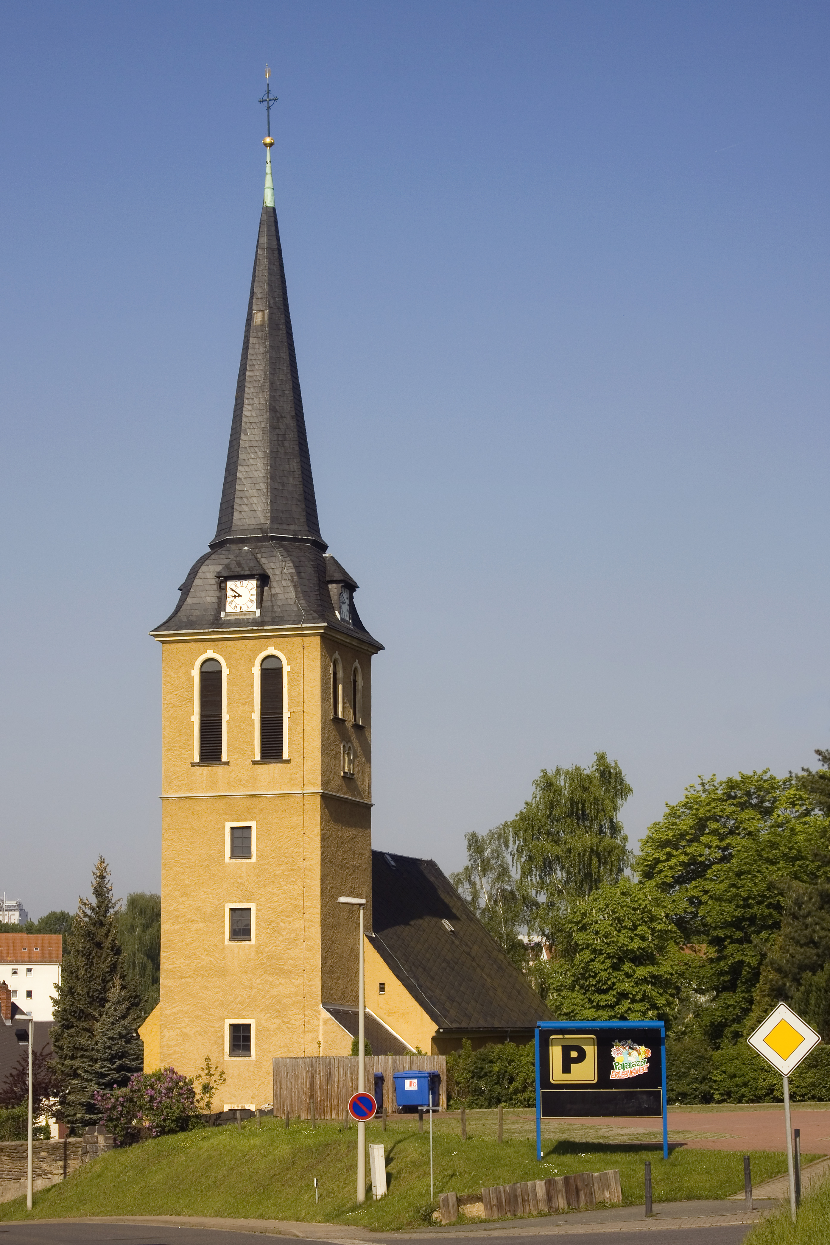 Hilbersdorf near Freiberg (Saxony), church